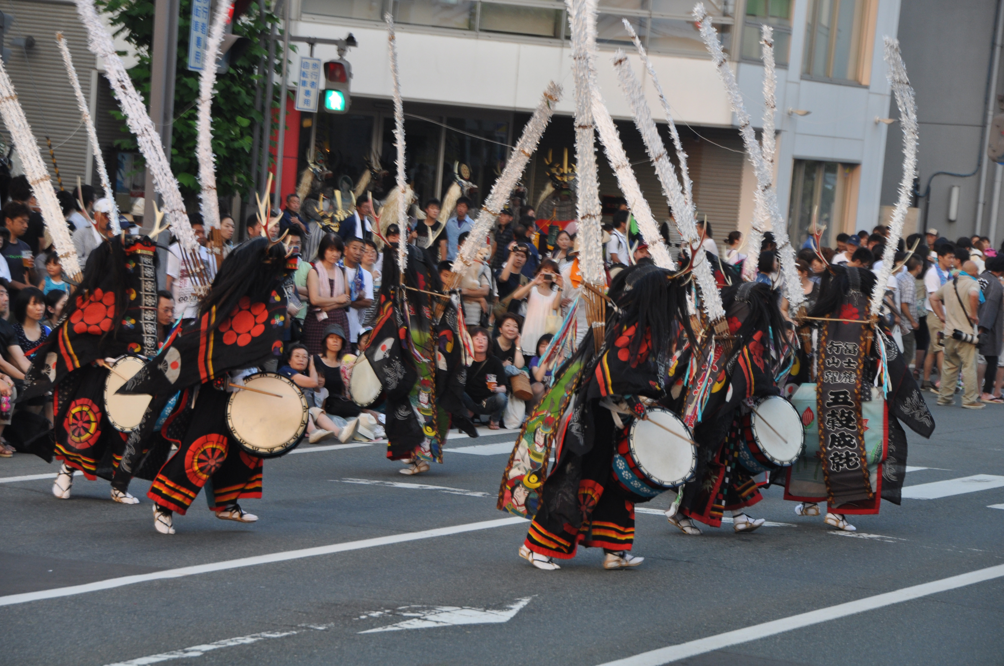 Gyōzan-style Miyakodori Deer Dance group [1] of Oshu (at the Kitakami Michinoku Traditional Dance Festival)